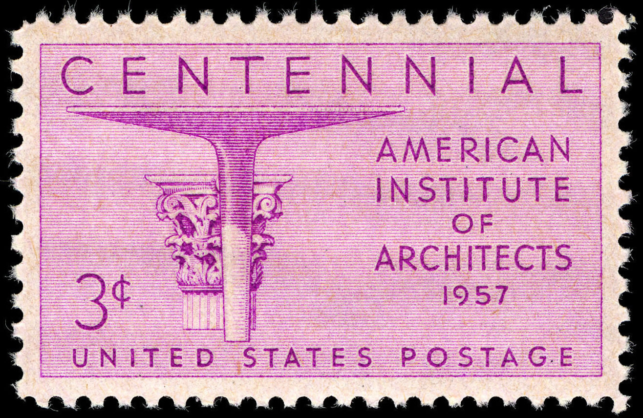 American Institute of Architects Centennial - 3-cent 1957 issue U.S. stamp.